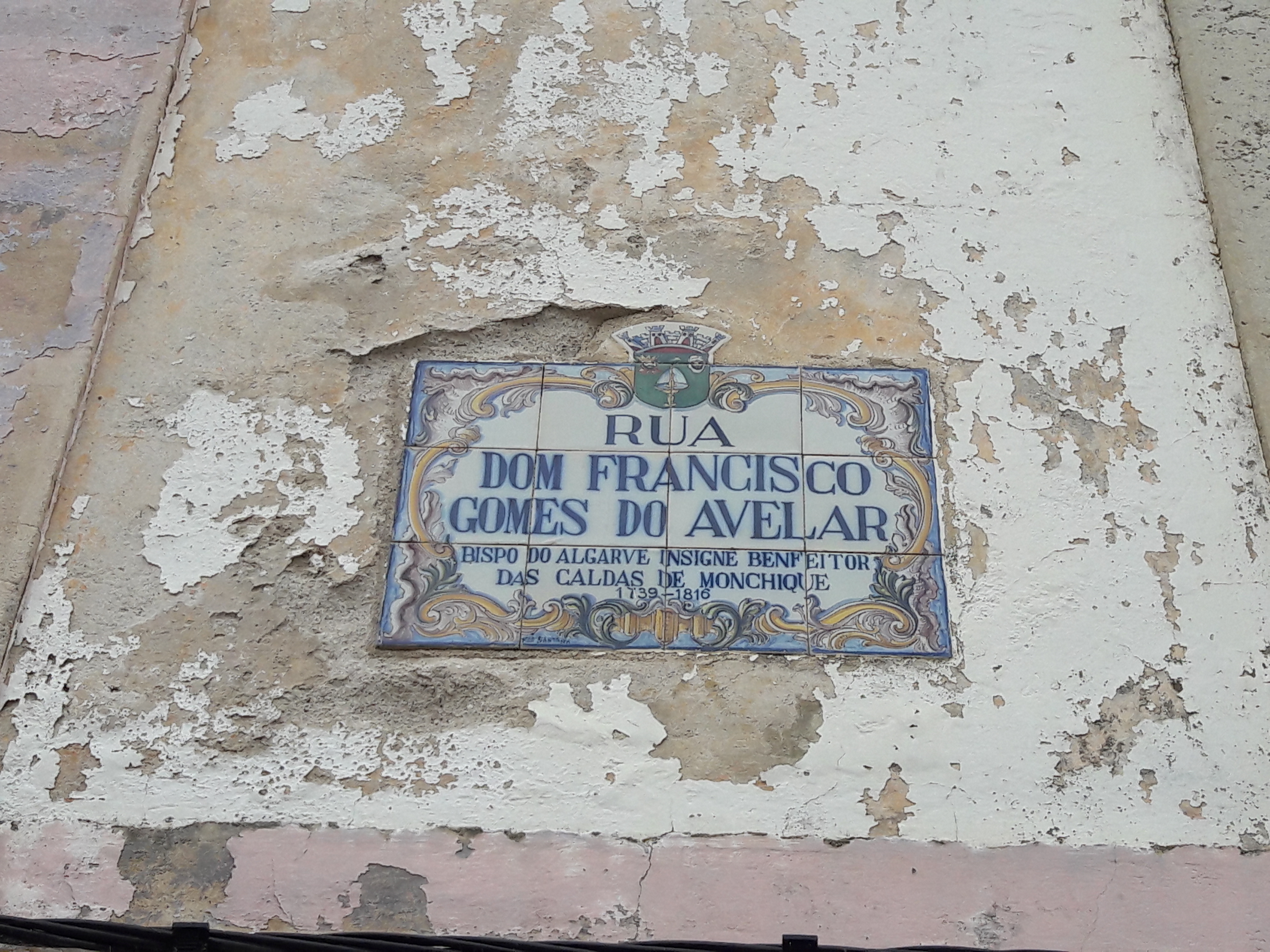 Street sign of Rua Dom Francisco Gomes do Avelar, in Monchique, southern Portugal.